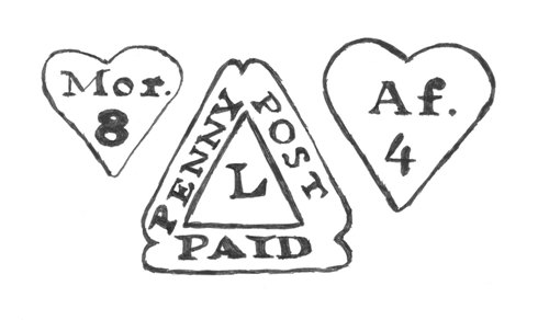 Examples of William Dockwra’s postal markings used in 1680-1682. The triangle-shaped mark is regarded by some as the world’s first postage stamp. (Consignia)